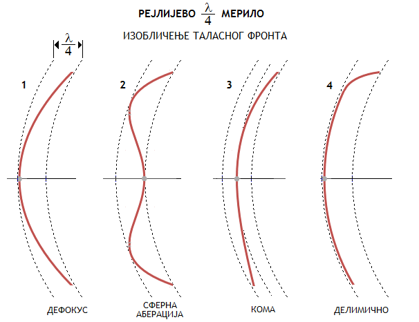 РЕЈЛИЈЕВО "ЧЕТВРТ ТАЛАСА" МЕРИЛО